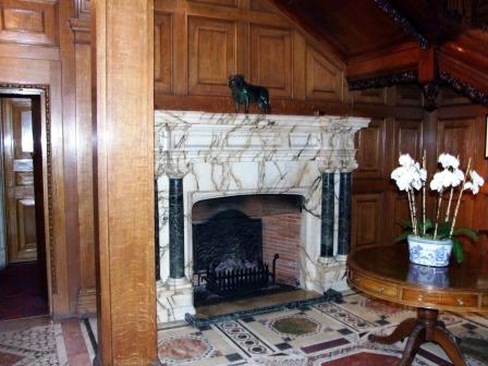 Marble Fireplace in 2 Temple Place on the Embankment